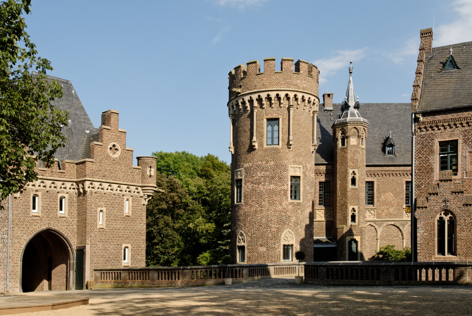 Schloss Paffendorf in Bergheim, Germany This is a photograph of an architectural monument.